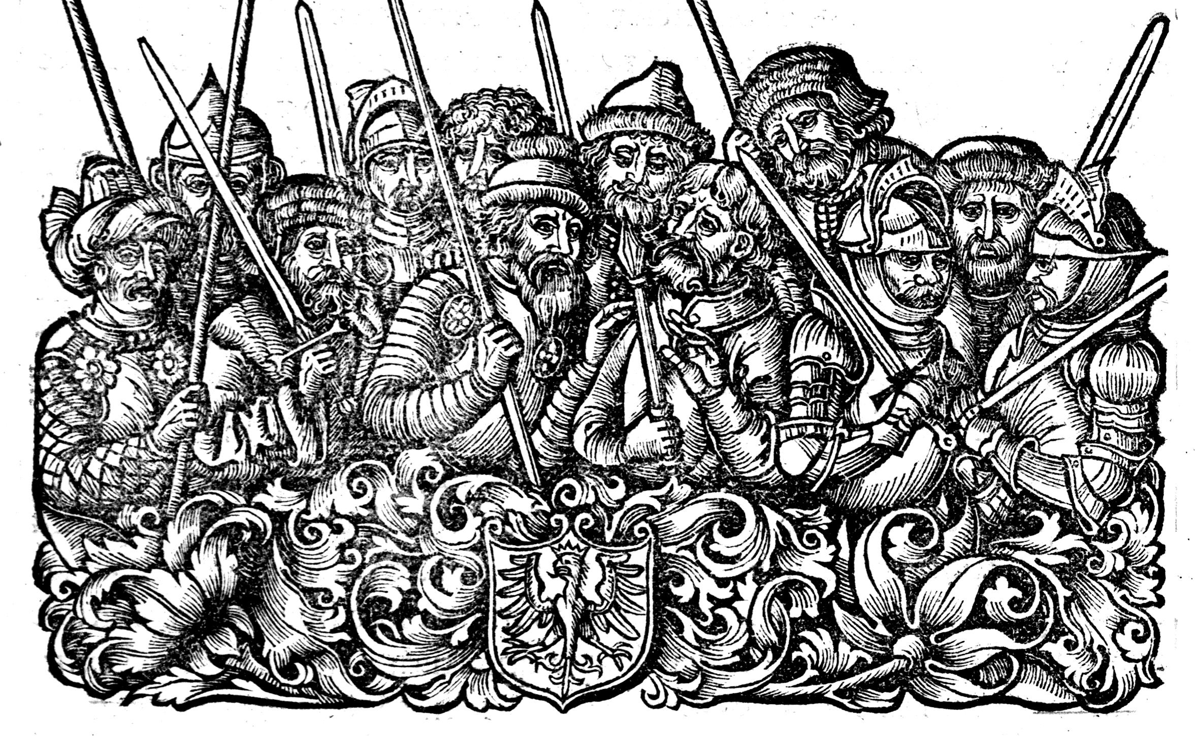 Illustration from Chronica Polonorum